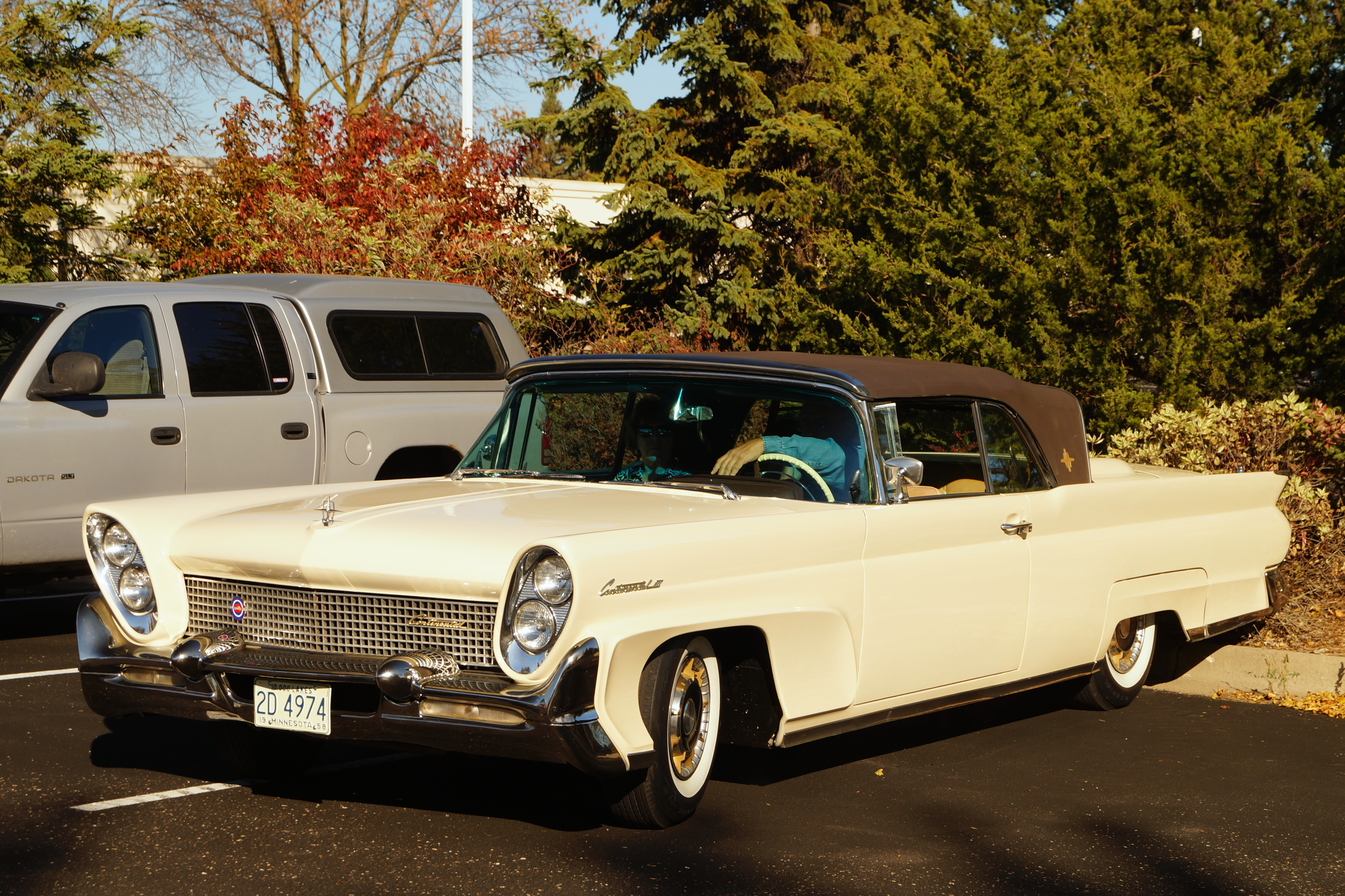 Northstar Lincoln & Continental Owner's Club r Club meeting October 2015 Click here for more car pictures at my Flickr site.